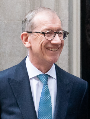 Mr. Philip May at No. 10 Downing Street in London. (Official White House Photo by Andrea Hanks)